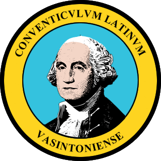 That's how a seal of the Conventiculum Latinum Vasintoniense might look like. Created using Image:Washington state seal.svg and the “Official Seal Generator” by Usor:Iustinus.